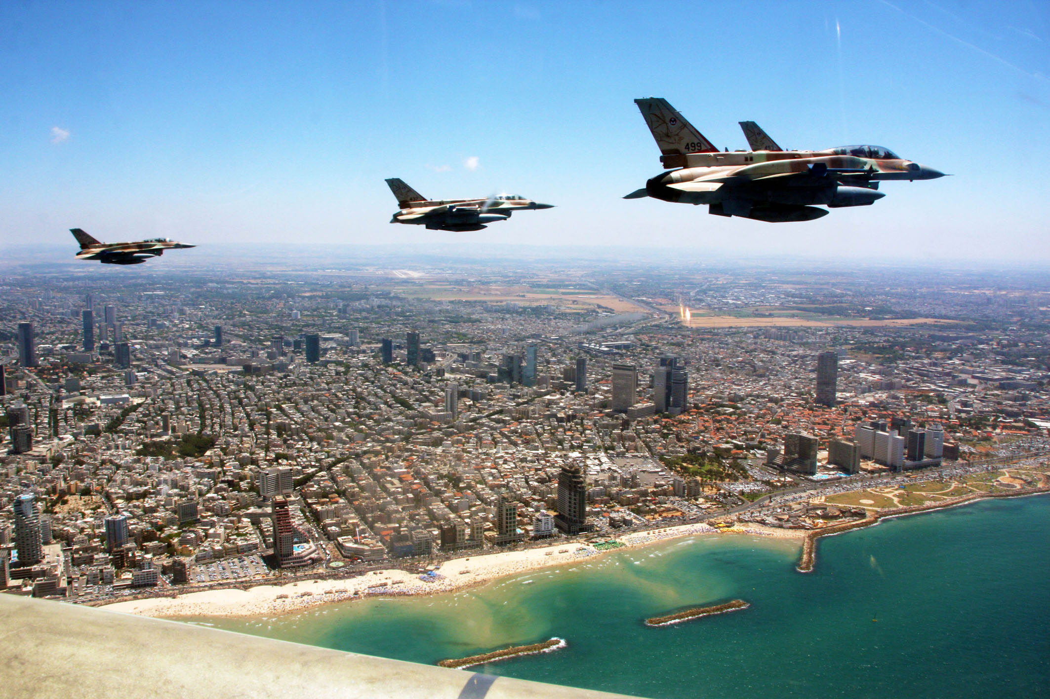 The Israeli Air Force crosses all of Israel from north to south, in honor of the country's 63rd Independence Day. Pictured: "Sufa" planes, also known as F-16I, flying over the beaches of Tel-Aviv.